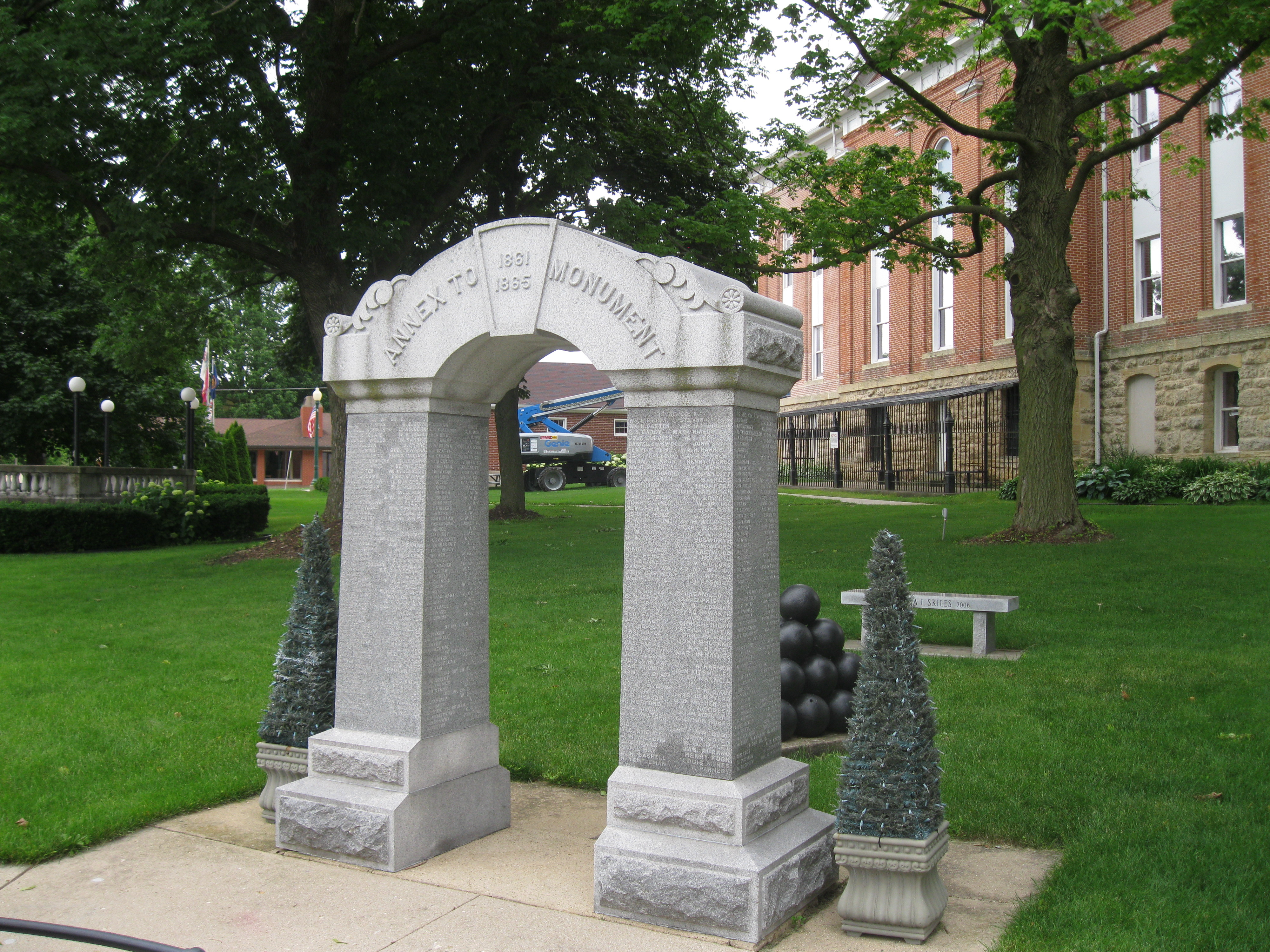 Annex to the Civil War memorial in front of the the Carroll County Courthouse in Mount Carroll, Illinois. The annex is the only annex to a Civil War memorial in the United States.